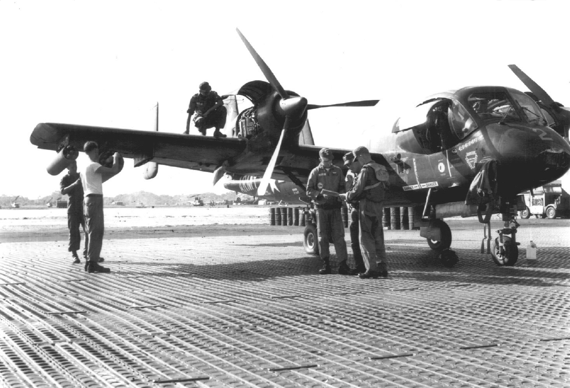 U.S. Army pilot, crew, and ground crew with a Grumman OV-1 Mohawk in Vietnam. Since this collection covers the U.S. Army 73rd Surveillance Aviation Company, the base depicted is probably Vung Tau.